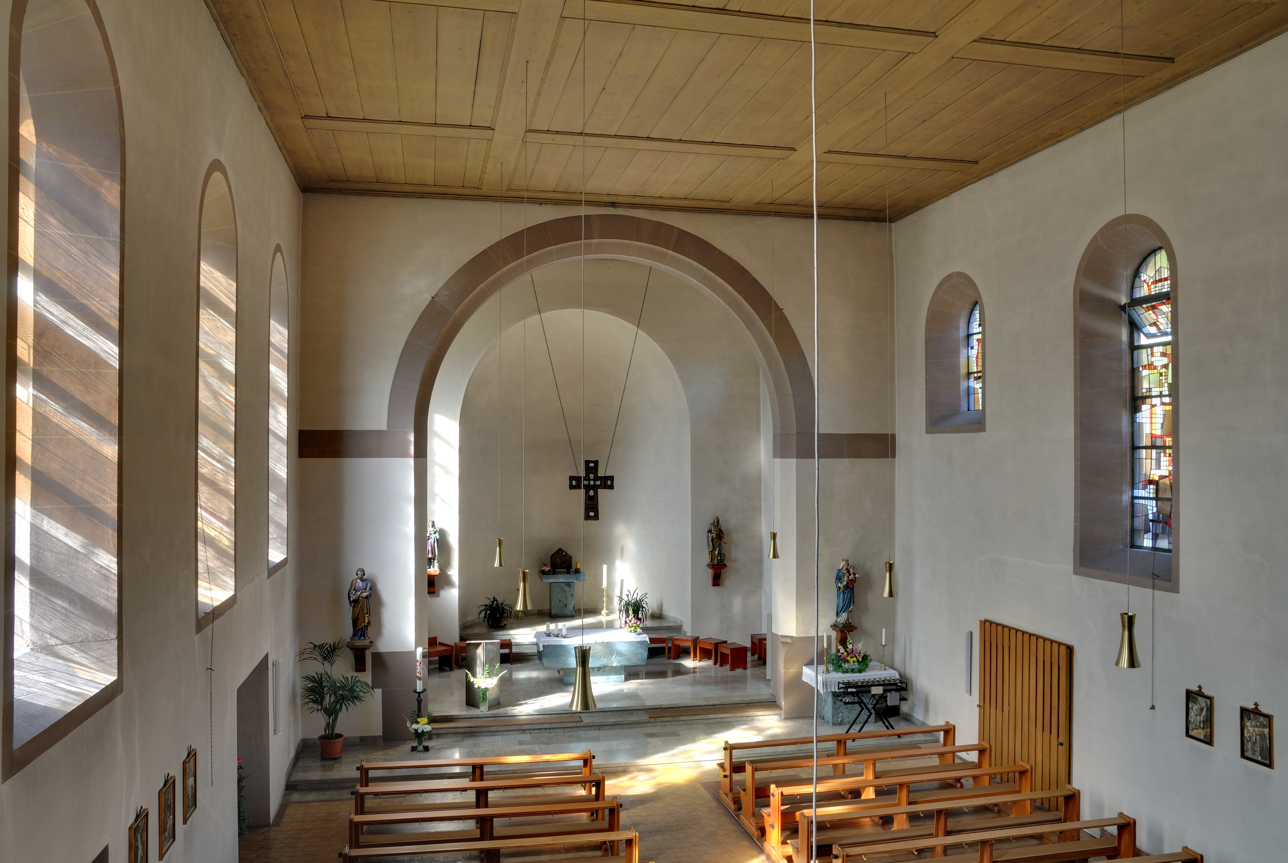 Geschwend: Saint Wendelin Church